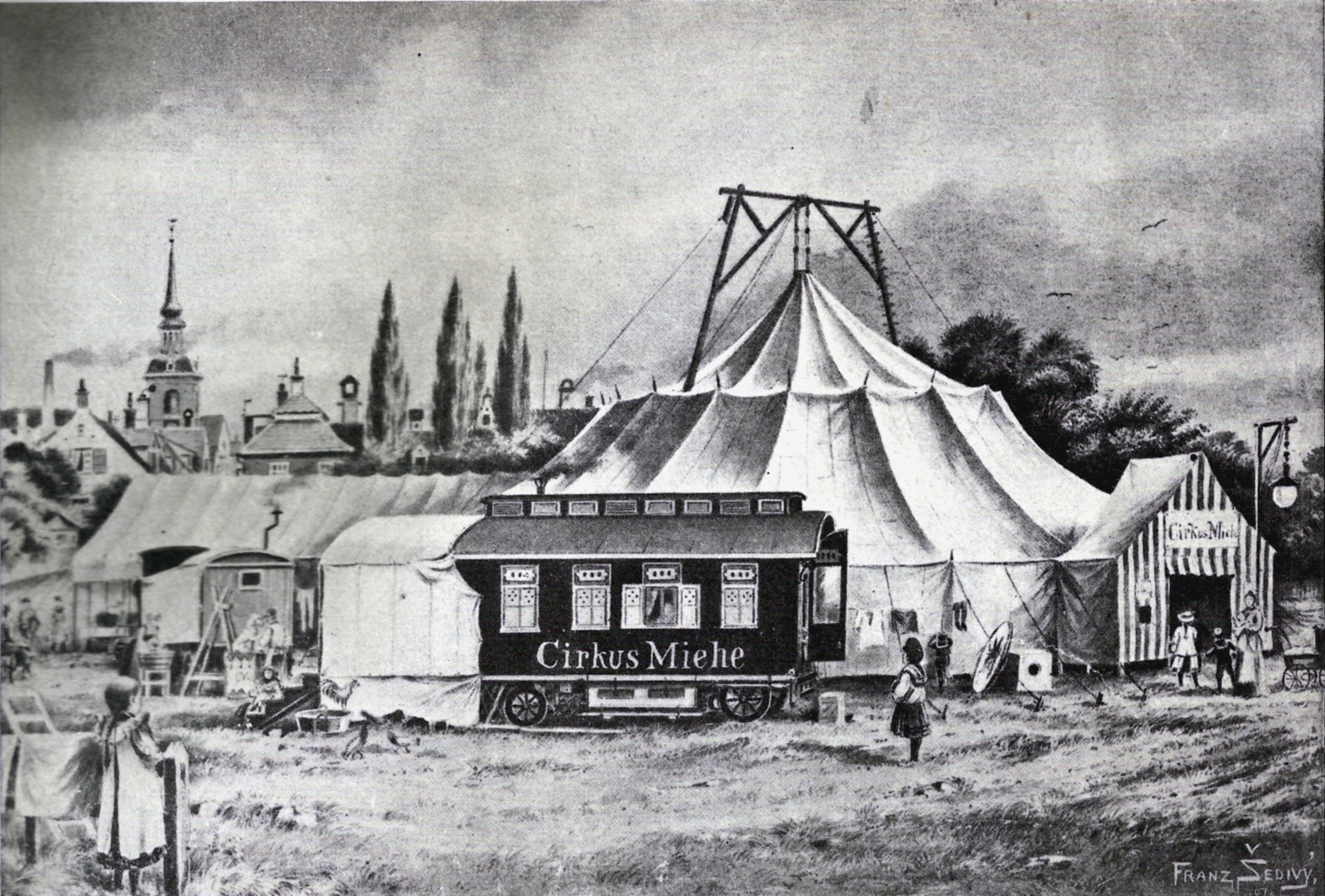 Danish Circus Miehe 1907, drawing by Franz Šedivý (1864-1945)